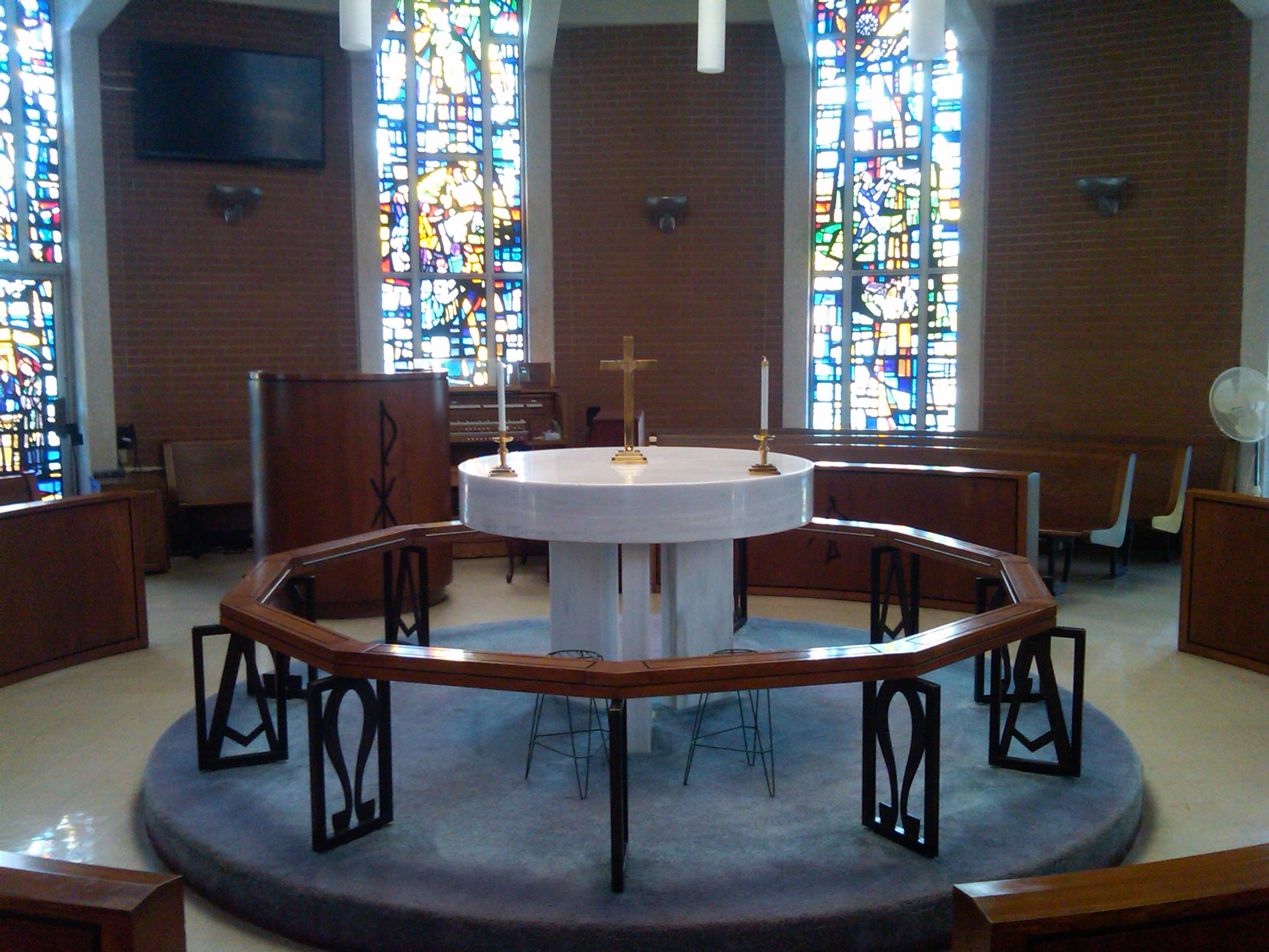 The chapel of the United Methodist Church of Kent, located in Kent, USA. The altar table is adorned with an altar cross, in addition to two altar candlesticks containing altar candles. The center of the altar cross contain the letters IHS, a christogram, which stands for Iesus Hominum Salvator ("Jesus, Saviour of men" in Latin). The altar table is surrounded by altar rails, with a pulpit bearing the Chi Rho, visible in the background. Because this church is located next to the campus of Kent State University, its chapel is often visited by students and faculty, as well as others, for Christian prayer, and is thus open throughout the day.